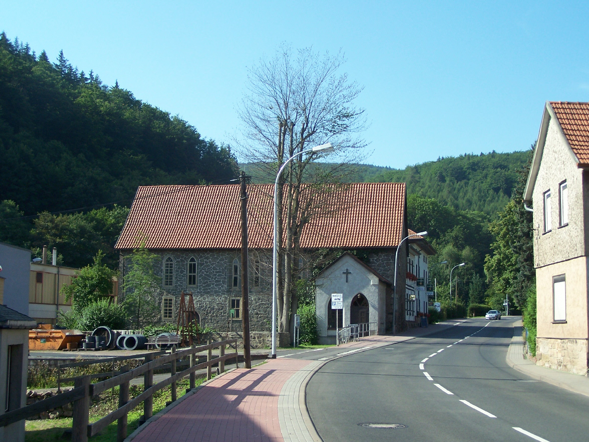 The former monastery Weissenborn at Heiligenstein part of Thal